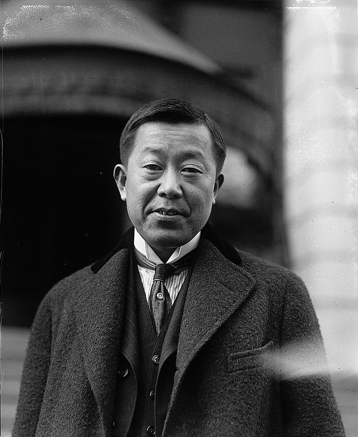 Masanao Hanihara, Vice Minister for Foreign Affairs of Japan since the illness of Baron Shidehara, head of the Japanese delegation at the arms conference, 11/30/21. (description from National Photo Company caption list, 1921.)